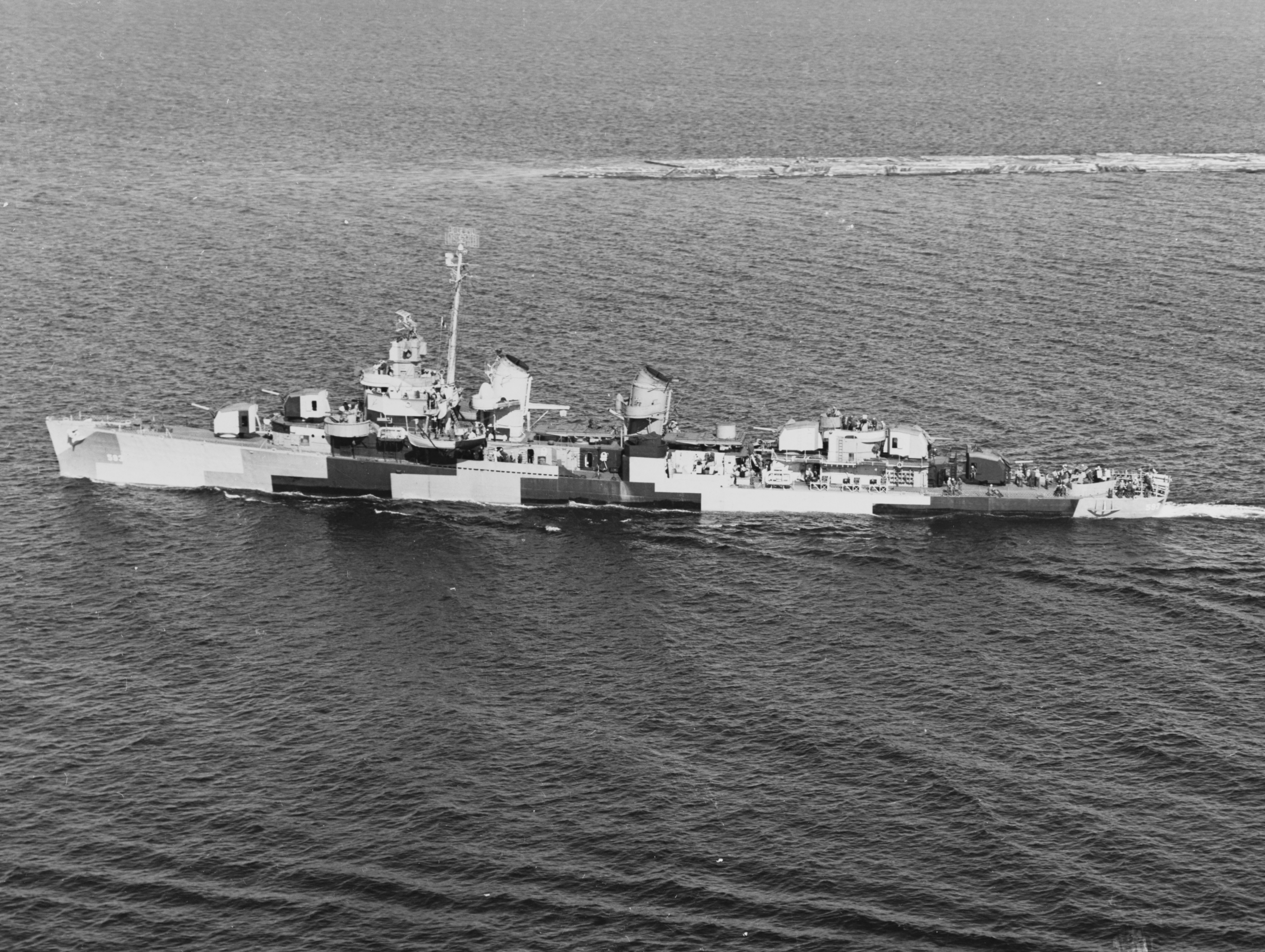 The U.S. Navy destroyer USS Killen (DD-593) underway off Richmond Beach, Washington (USA), 8 June 1944. Her camouflage is Measure 31, Design 11D.